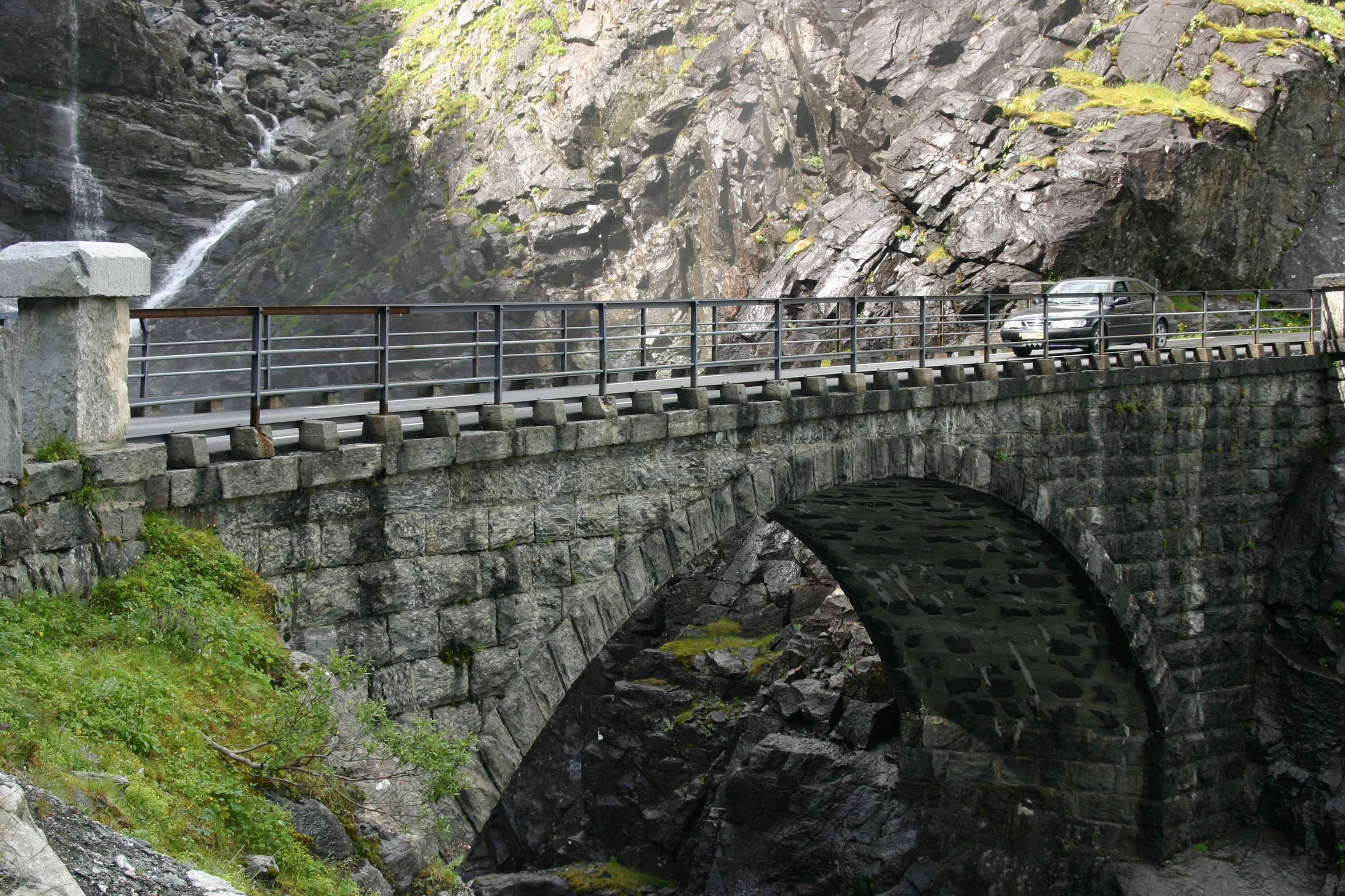 Bridge crossing Stigfoss in Rauma municipality, Møre og Romsdal county, Norway